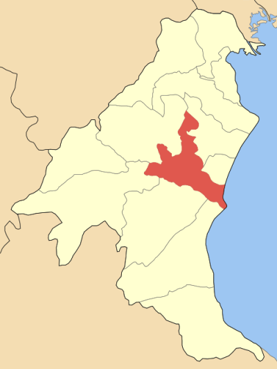 Locator map of Katerinis municipality (Δήμος Κατερίνης) at Pierias perfecture, Greece.